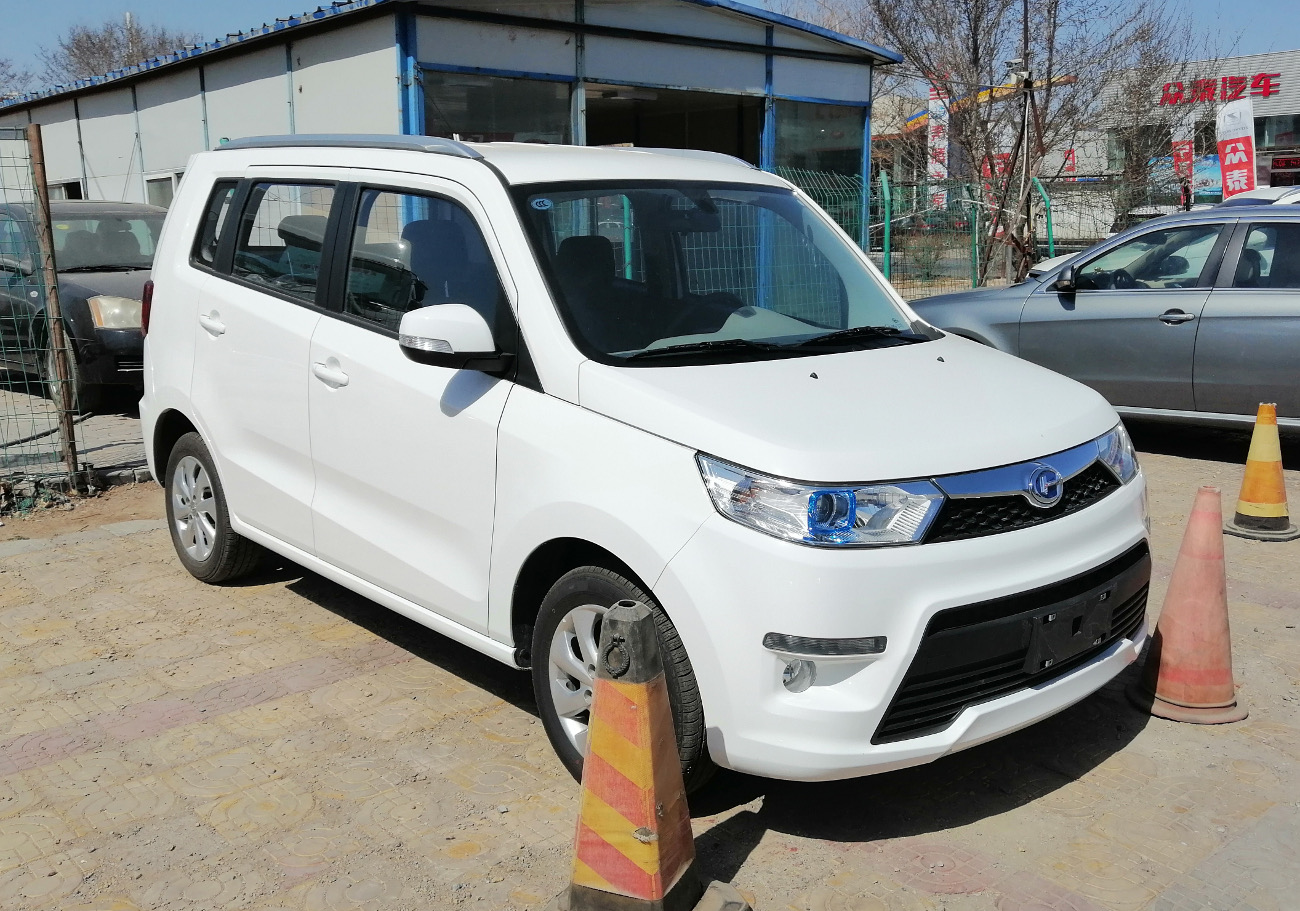 Changhe Beidouxing II photographed in Yinchuan, Ningxia autonomous region, China.